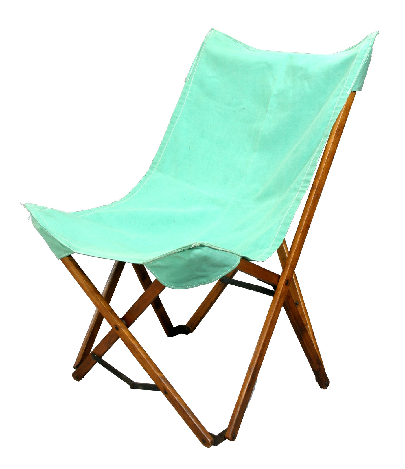 A late Campaign Paragon Chair. Circa 1900.